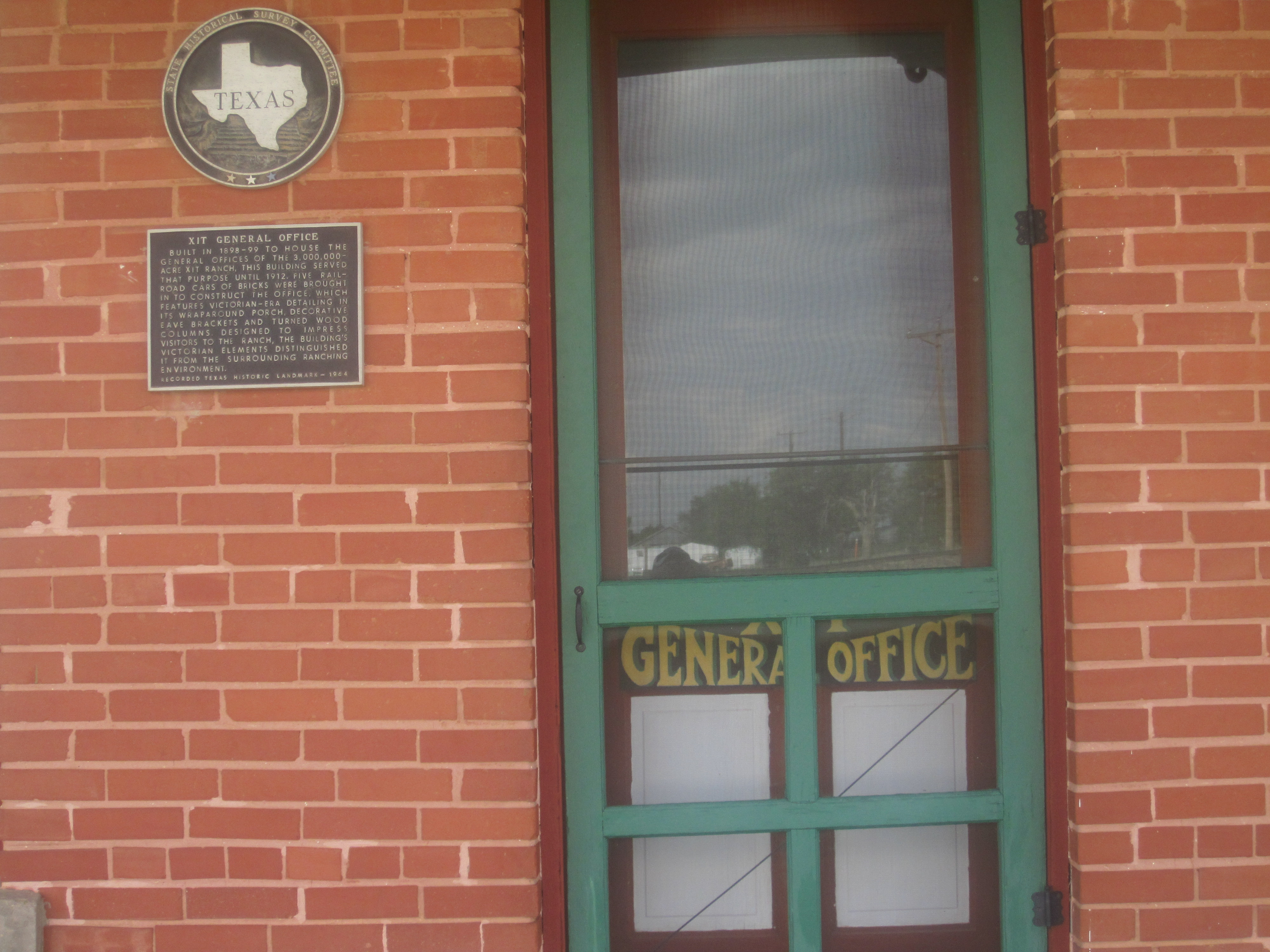 I took photo with Canon camera in Channing, TX.